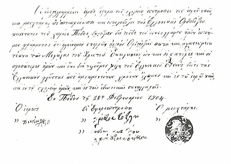 A letter from the Greek municipality in the village of Pod, today Flamouria, Greece The signed below, priests, regents of the school board, holy church wardens and the official president of the community, as representatives and proxies of the Greek Orthodox Community of village Podos, state with this, signed by us, official letter, that we stay hardily in Orthodoxy, faithful and staunch "children of the Holy Christ's Church" as our fathers and our forefathers, and that we remain members of the Greek Nation because we carry Greek language from immemorial times to our holy church, to our school and to our private transactions. In Podos, 28th February 1904. the Priest the Teacher Regents and Church Wardens: Spiros(?) Totlis, ......... , ........ the President"